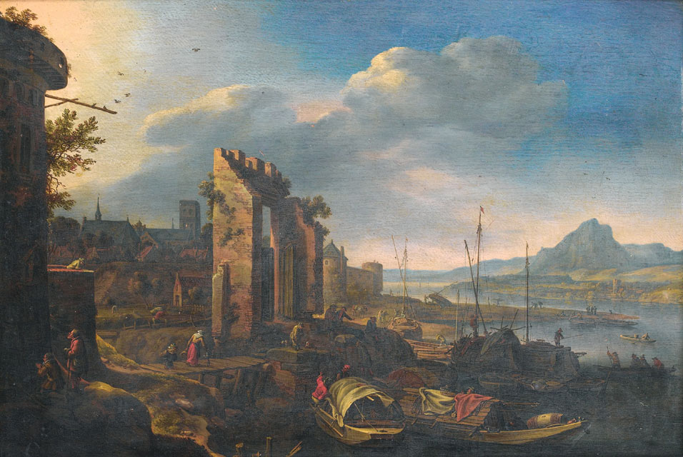 A landscape painting